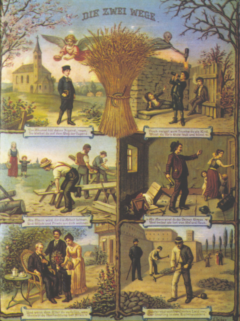 Sober industriousness leads to prosperity and honored old age, drunkenness leads to broken family life and prison.